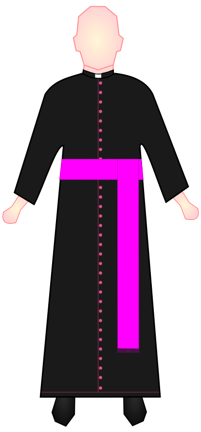 The pattern for the cassock of Honorary Prelates of His Holiness and Protonotaries Apostolic